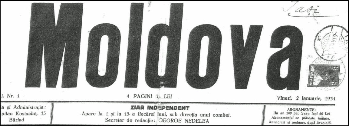 Logo of the Romanian newspaper Moldova, as used in 1931